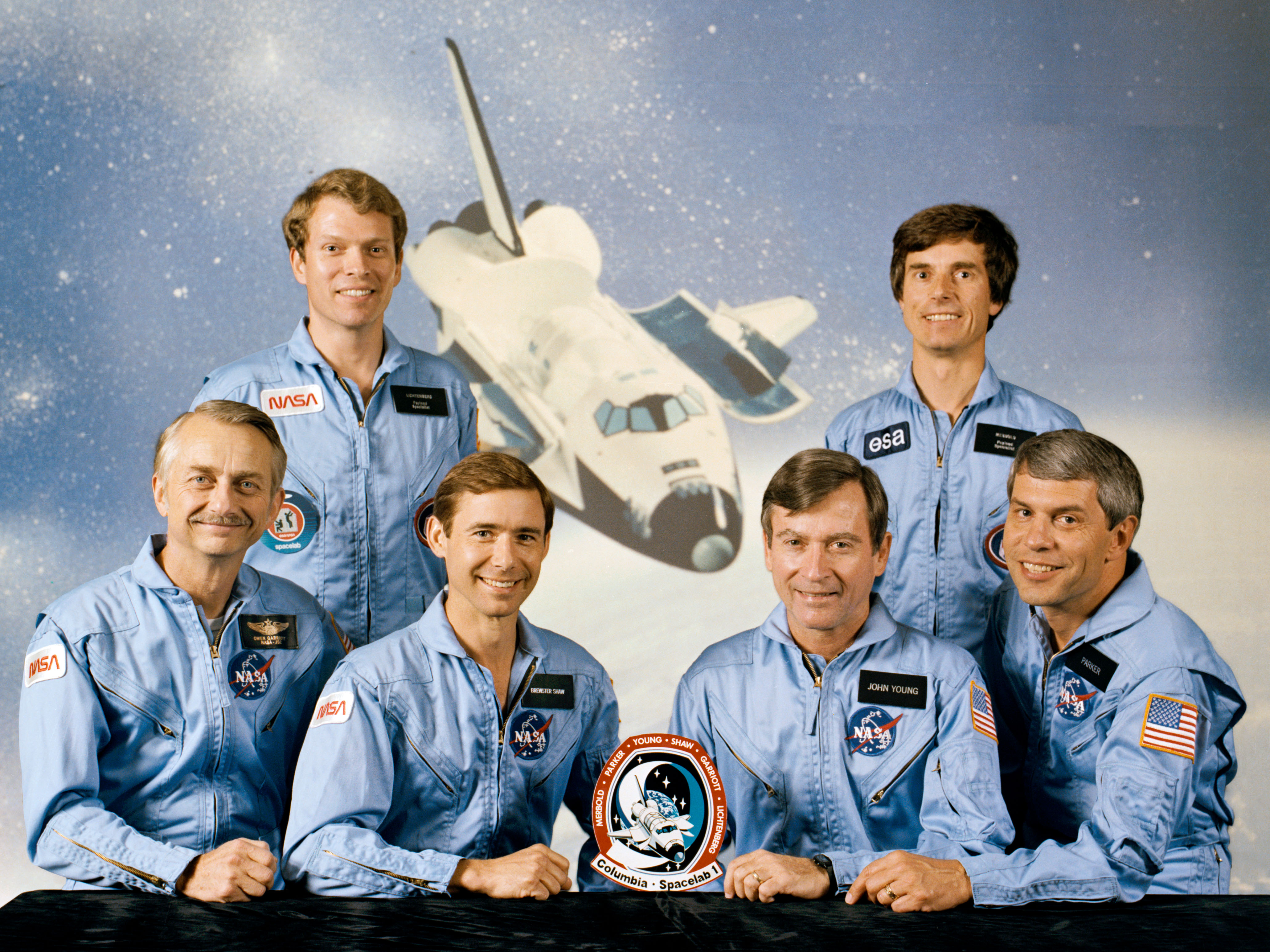 Official Portrait of the STS-9 crewmembers. Seated from left to right are Owen Garriott, mission specialist; Brewster Shaw, pilot; John Young, commander; and Robert Parker, mission Specialist. Standing from left to right are the payload specialists, Byron Lichtenberg and Ulf Merbold. These six men represent the first crewmembers to man the Columbia when it gets reactivated later this year. The four NASA astronauts are joined by a European and MIT scientist payload specialist and the Spacelab module and experiment array for STS-9. On the front row are Astronauts Owen K. Garriott, mission specialist; Brewster H. Shaw, Jr., pilot; John W. Young, commander; and Robert A. R. Parker, mission specialist. Byron K. Lichtenberg of the Massachusetts of Technology, left and Ulf Merbold of the Republic of West Germany and the European Space Agency stand in front of an orbital scene featuring the Columbia. Columbia was used for the first five Space Transportation System missions in 1981 and 1982.